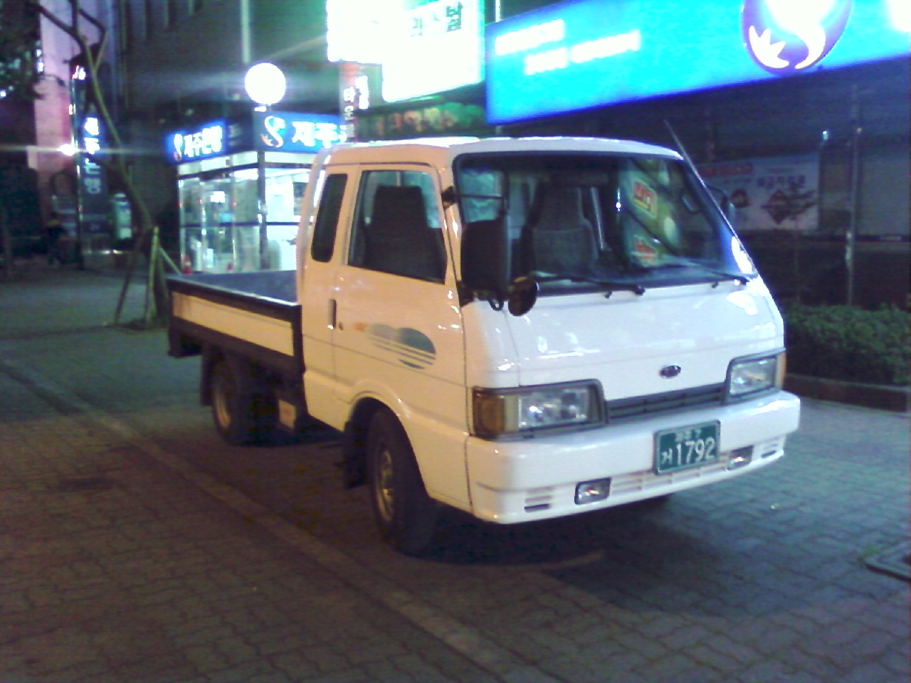 Kia Wido Bongo J2, 1995-1997